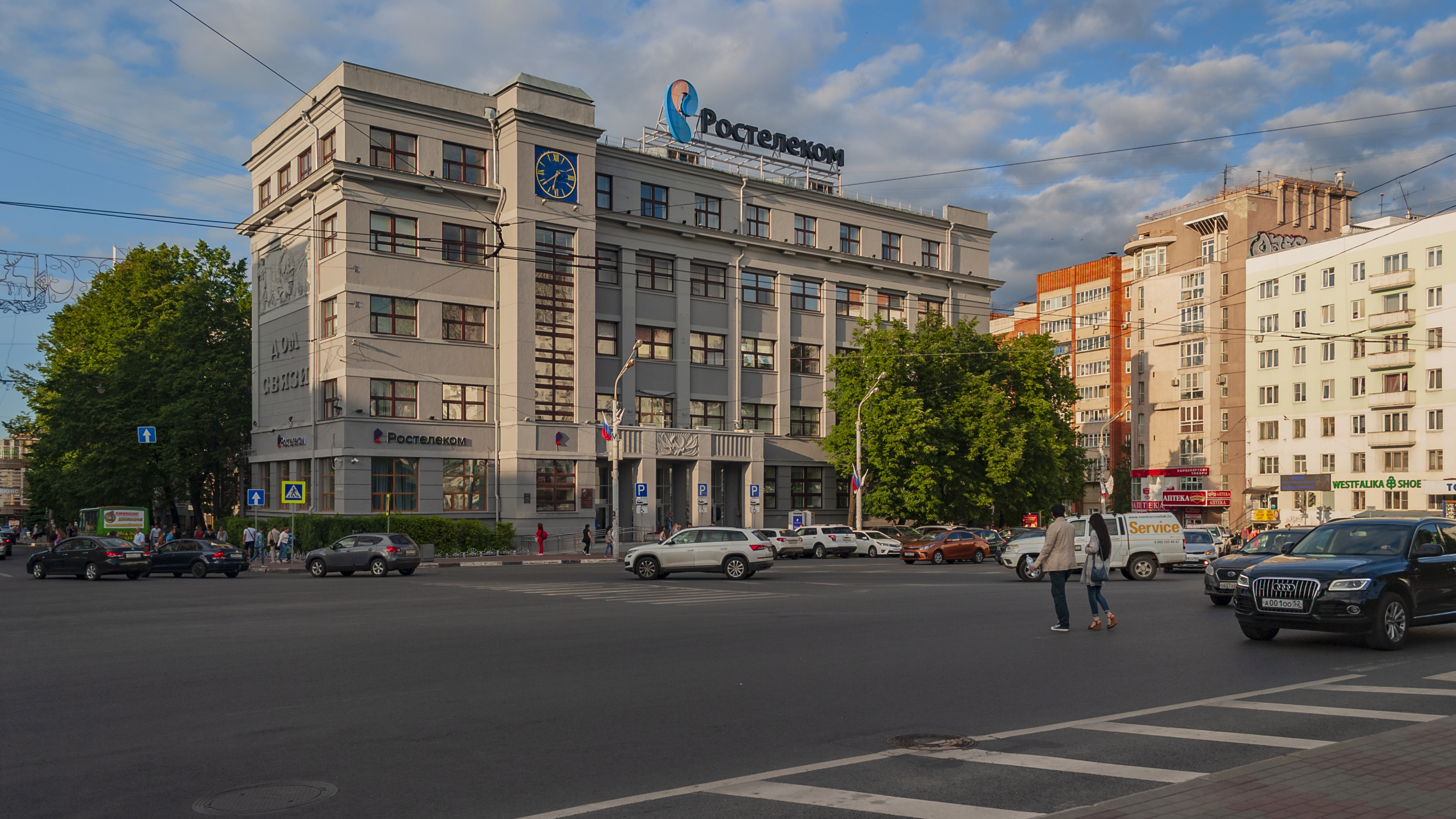 Communication house and Rostelecom central office in Nizhny Novgorod